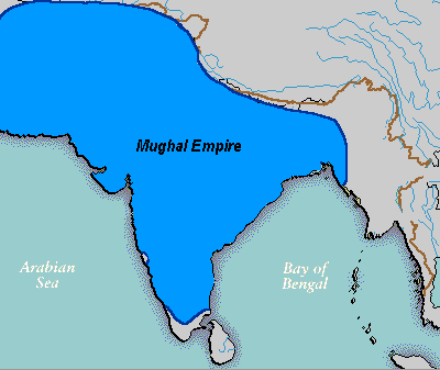 Map of Indian subcontinent with Mughal Empire highlighted.